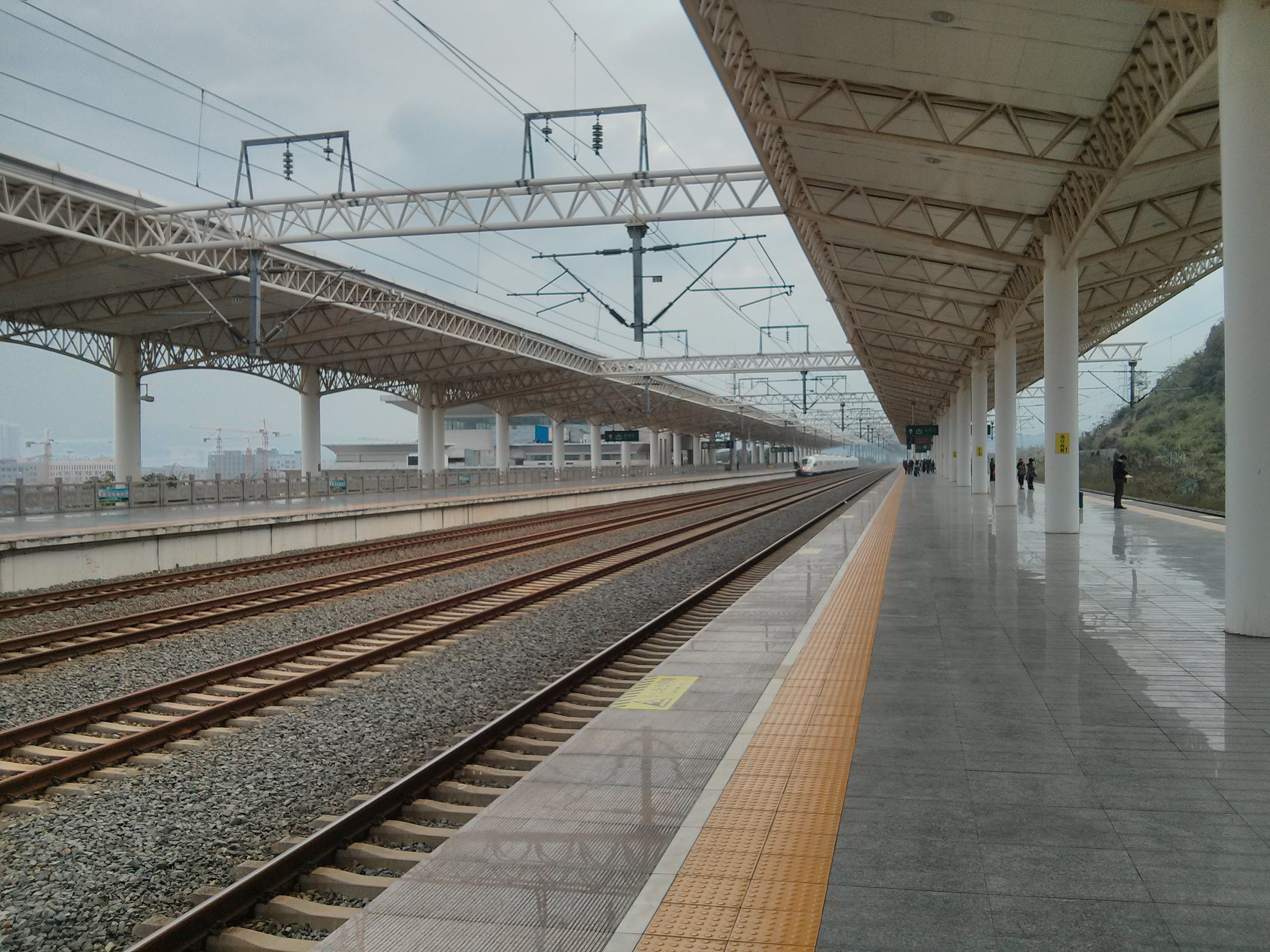 Ning`hai Railway Station